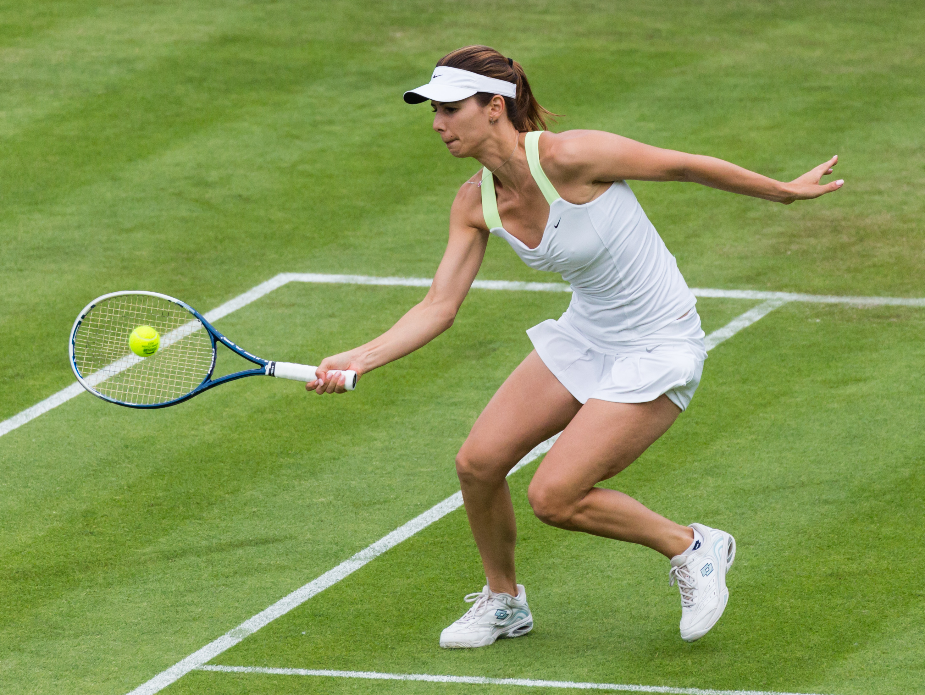 Tsvetana Pironkova in her first round match against Anastasia Pavlyuchenkova at Wimbledon in 2013.